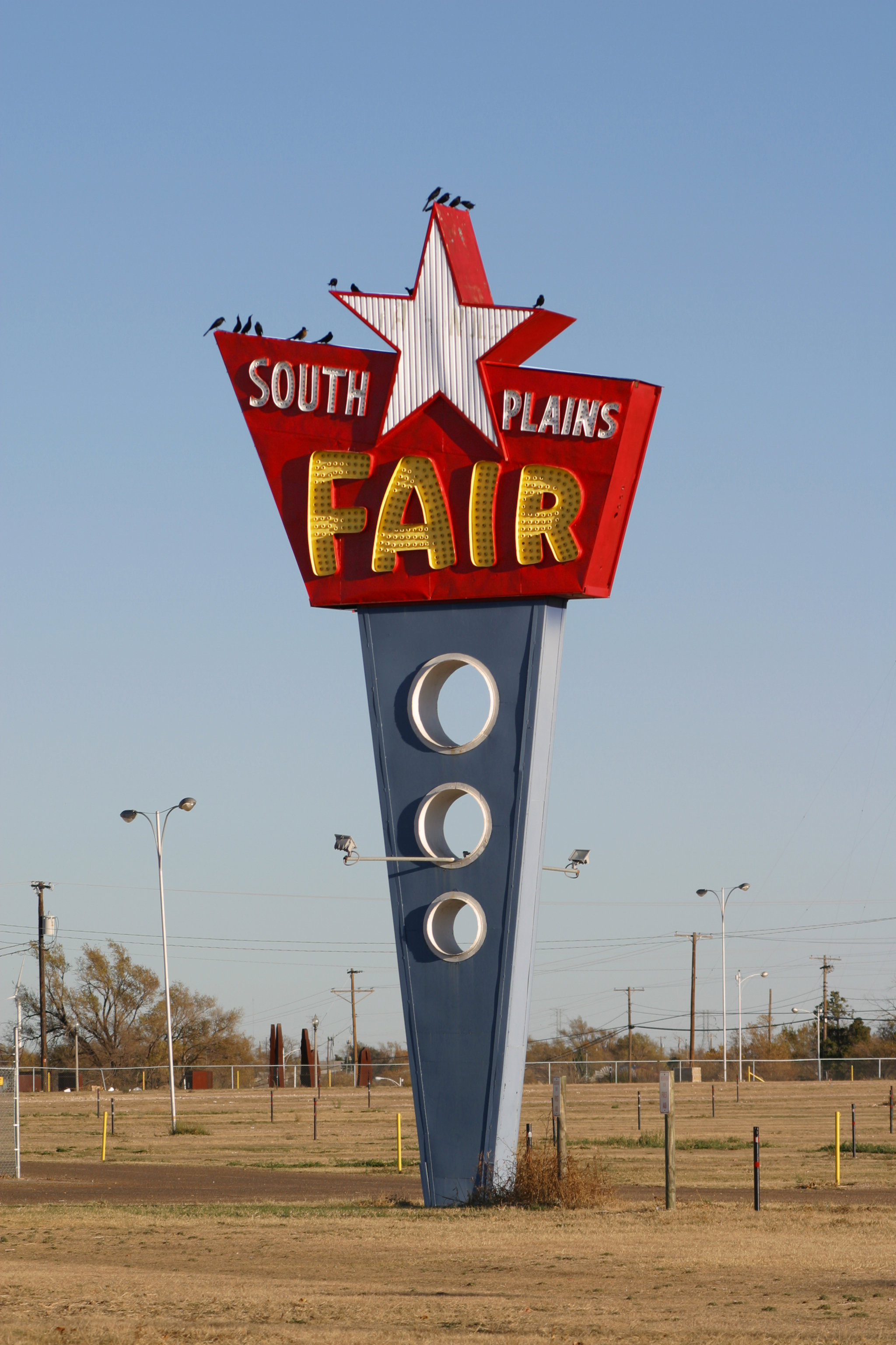 South Plains Fair, Lubbock County, Texas.